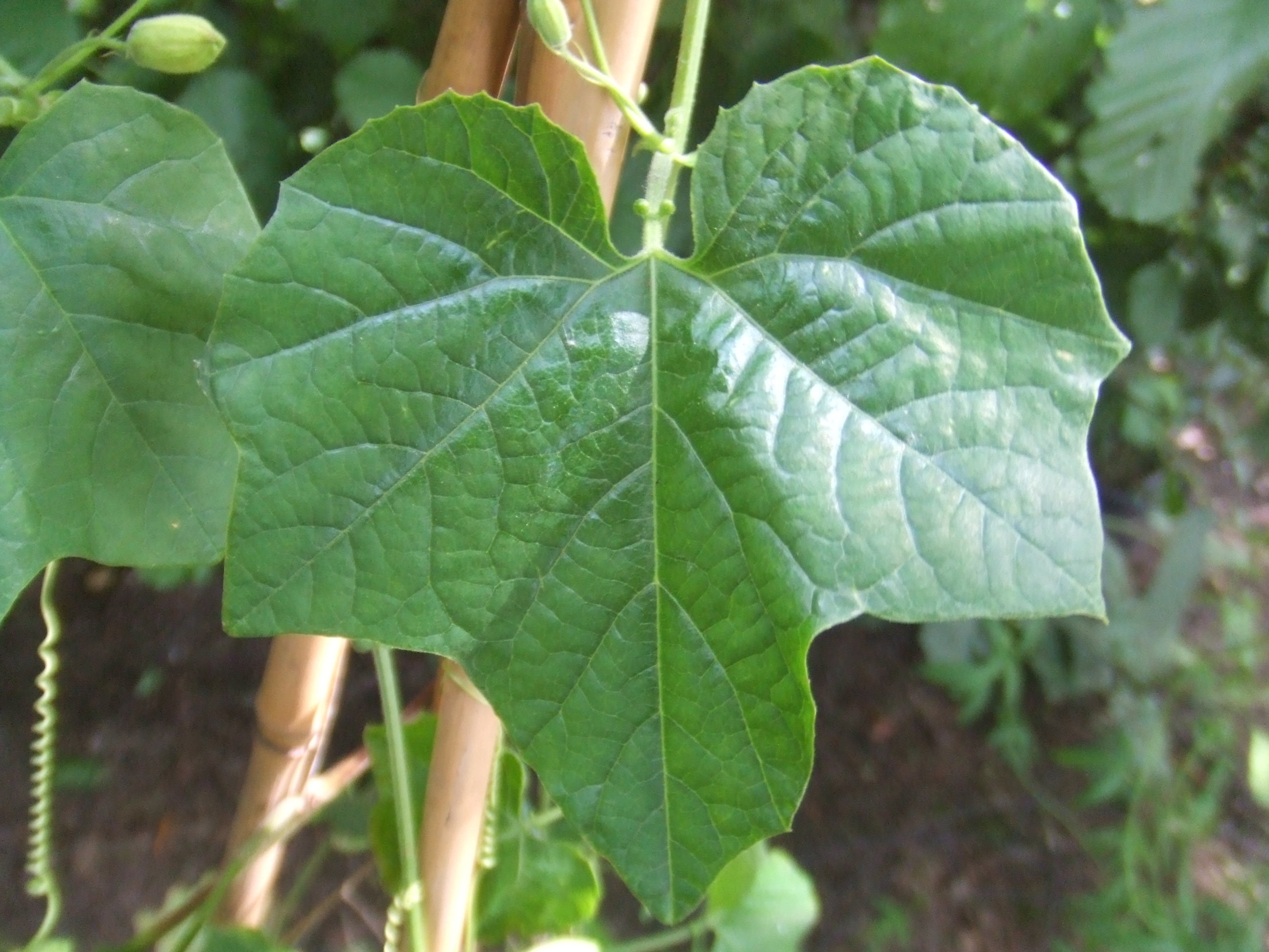 leaf of Passiflora morifolia, picture